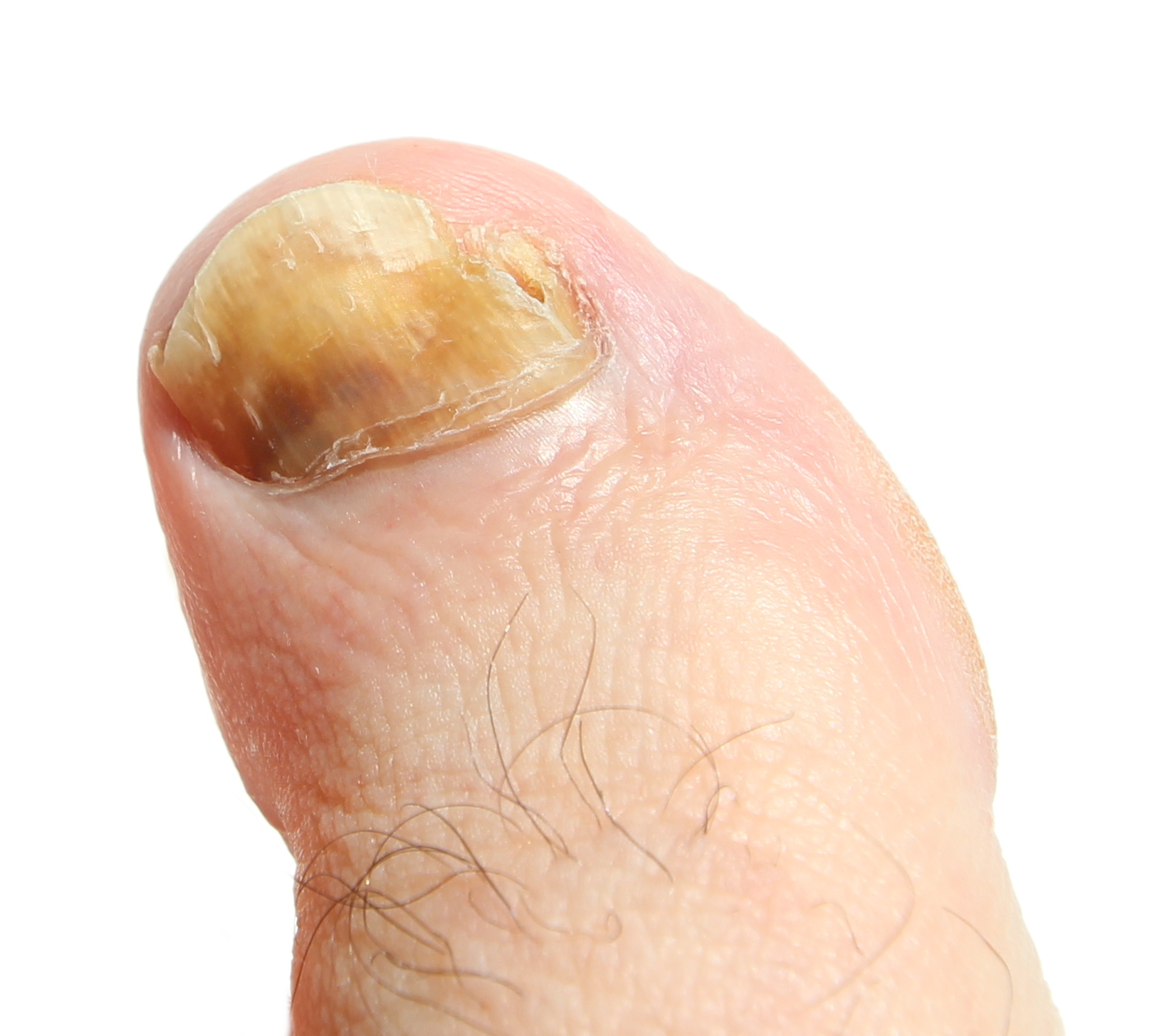 Nail fungus on left big toe.